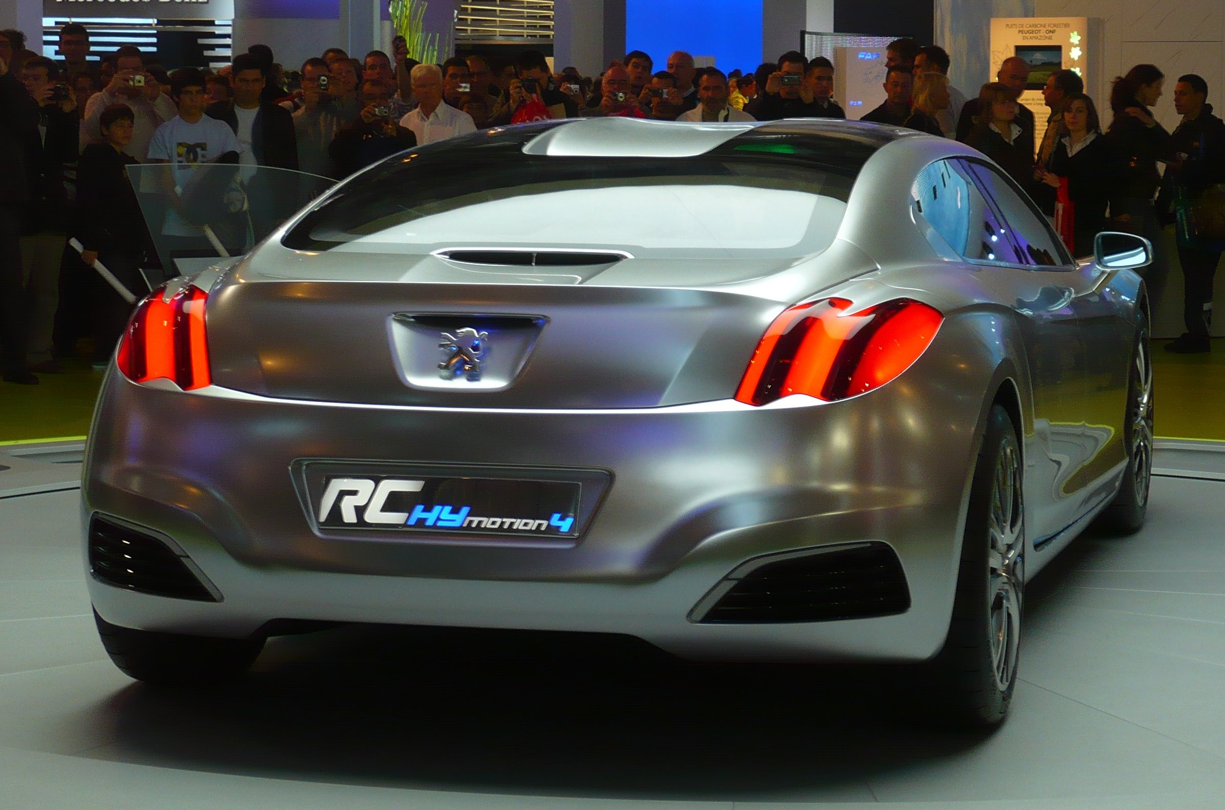 Peugeot RC HY motion4 concept.